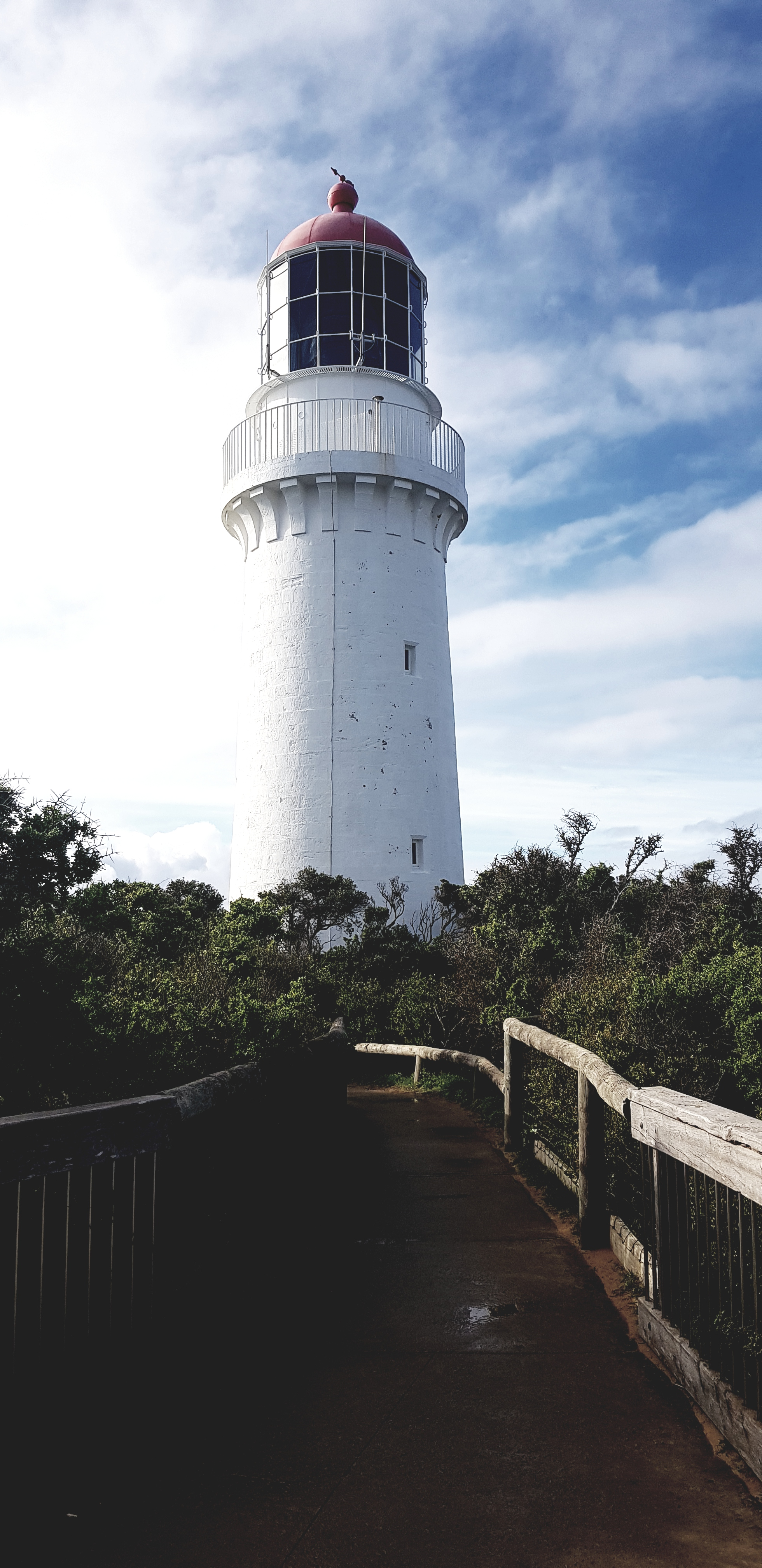 Cape Schanck Photo by Cham Abeysinghe